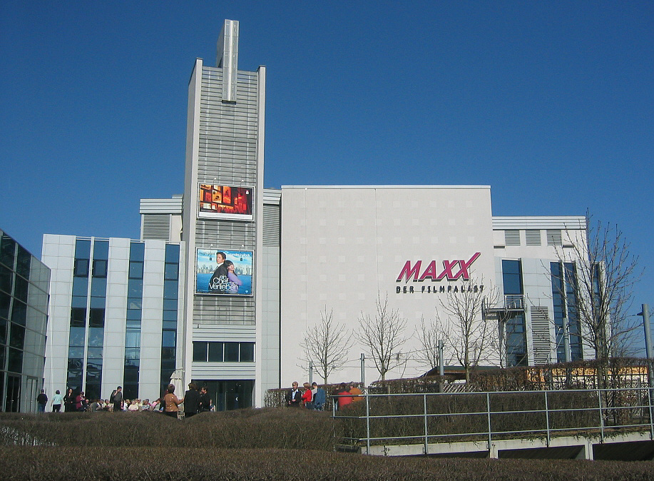 Stuttgart, Germany: SI-Centrum: MaxX Filmpalast (cinema)